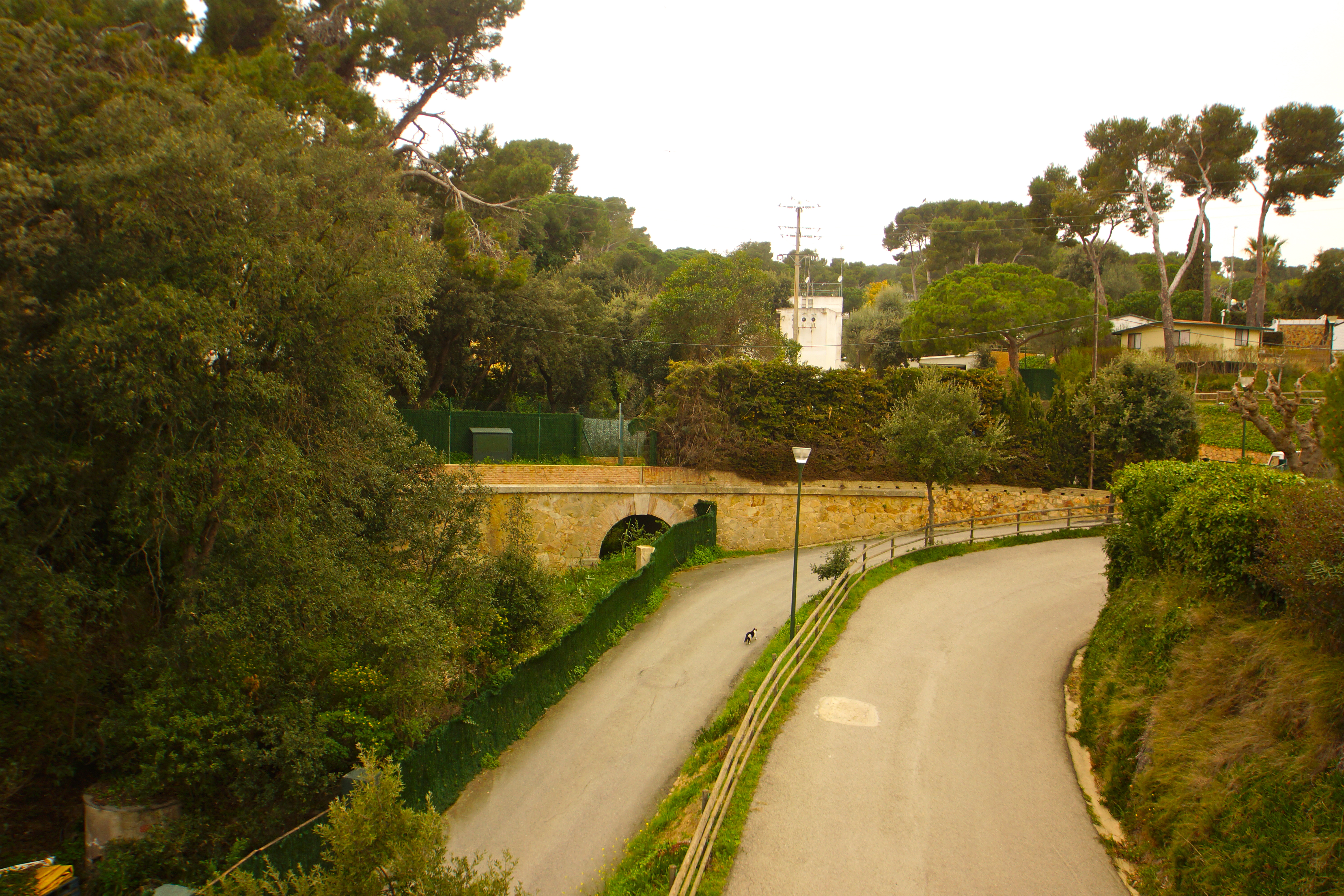 Calonge (Sant Antoni de Calonge), Catalonia: Rec de Treumal stone bridge